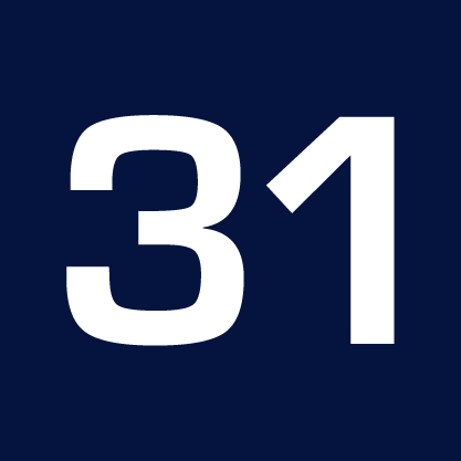 A white latin number 31 on a navy blue background